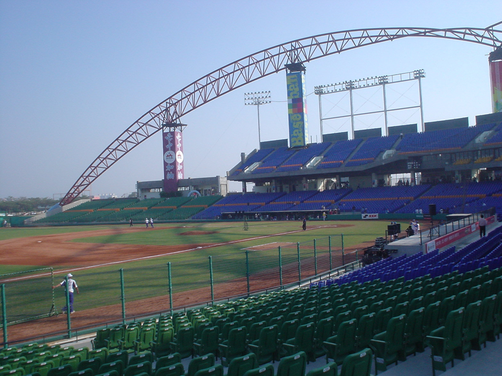 Taichung Intercontinental Baseball Stadium. Photo taken on September 9, 2006.